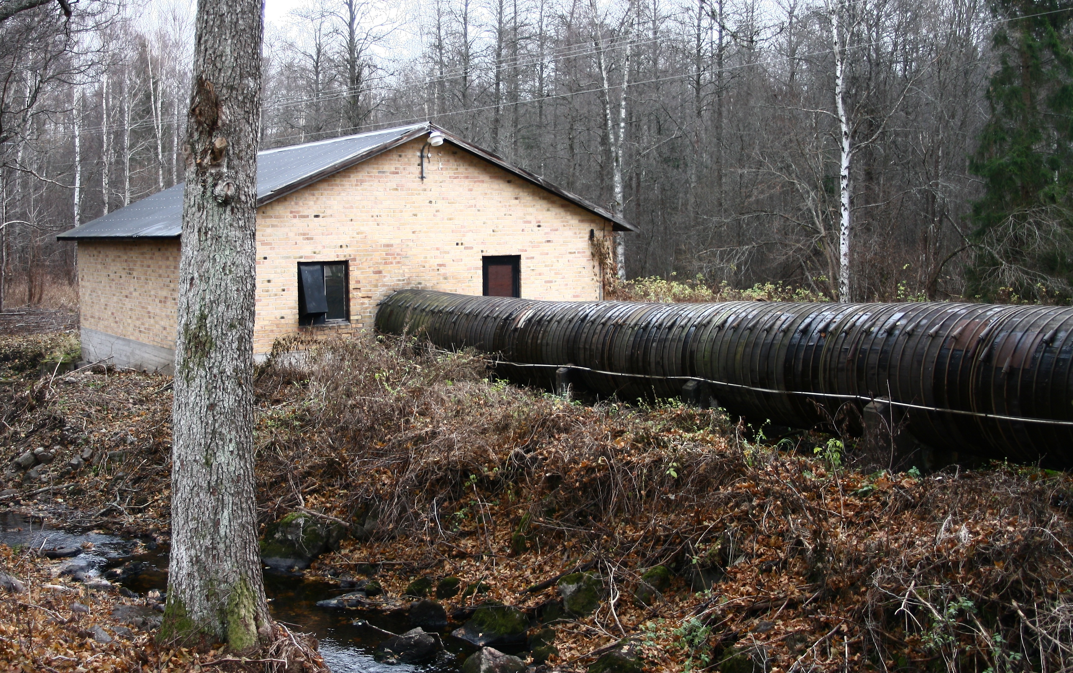 The wooden pipe ending at the power station at Skogaholm, Närke, Sweden.